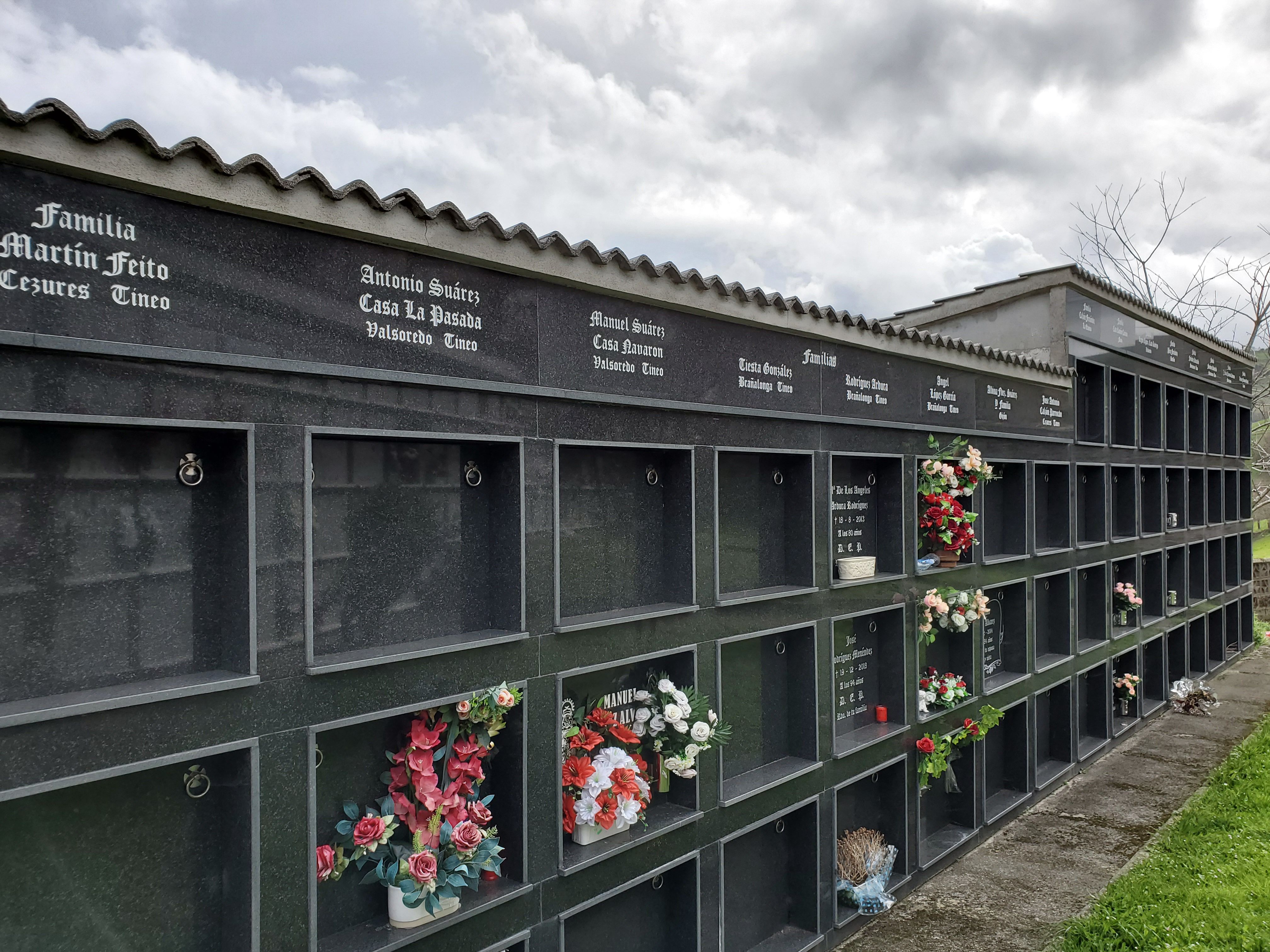 A wall of grave niches